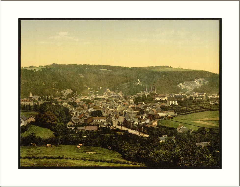 between ca. 1890 and ca. 1900. Print no. 8624. Views of architecture and other sites in Belgium 1 photomechanical print : photochrom color. Library of Congress Prints and Photographs Division Washington D.C. 20540 USA Cityscape of Spa Belgium between ca. 1890 and ca. 1900. Print no. 8624. Views of architecture and other sites in Belgium 1 photomechanical print : photochrom color. Library of Congress Prints and Photographs Division Washington D.C. 20540 USA